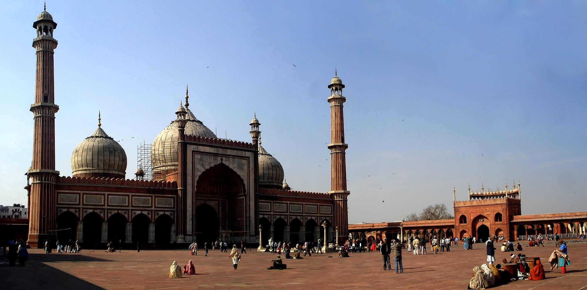 The facade of the Jama Masjid, Delhi.